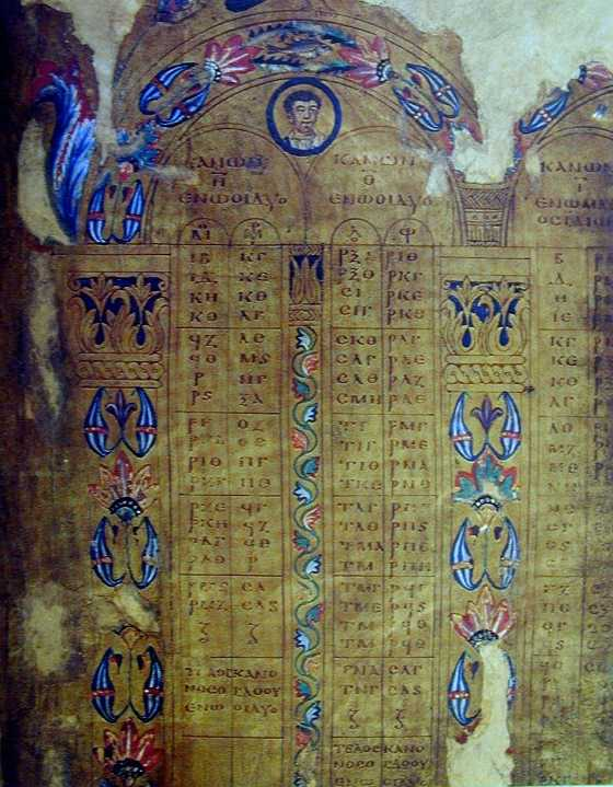 Image of one of the London Canon Tables.